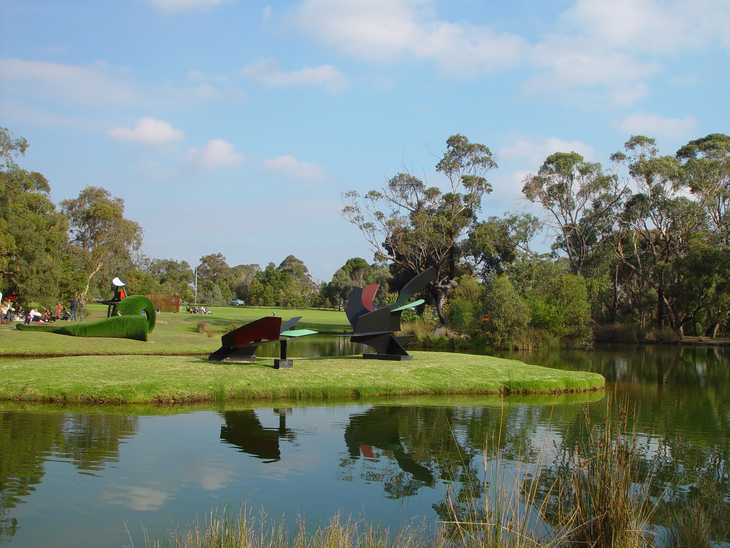 Inge King's 1991 steel sculpture "Island Sculpture" is located at the McClelland Gallery and Sculpture Park, 390 McClelland Drive Langwarrin, Victoria, Australia. This view is looking south. To the left is the two eastern parts of Sebastian Di Maurio's 2002-2003 "Snuffle" (Astroturf and galvanised steel). The western part not visible, but is to the right of this image. Behind "Snuffle", Inge King's "Jabaroo" can be seen. Licencing